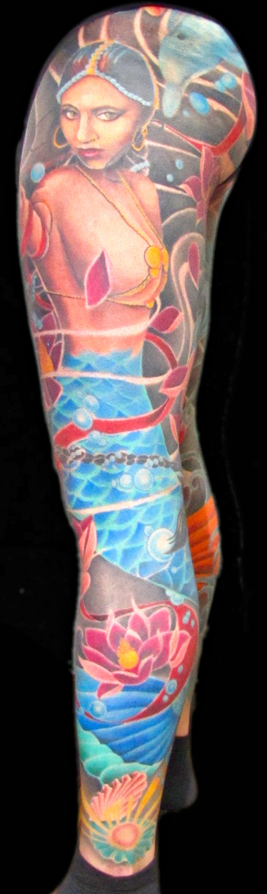 Left leg 'sleeve', tattooed by Patrick McFarlane, The Black Freighter Tattoo, Chester, Cheshire, UK. Design based on pose of Urmila Matondkar, Bollywood actress, India.